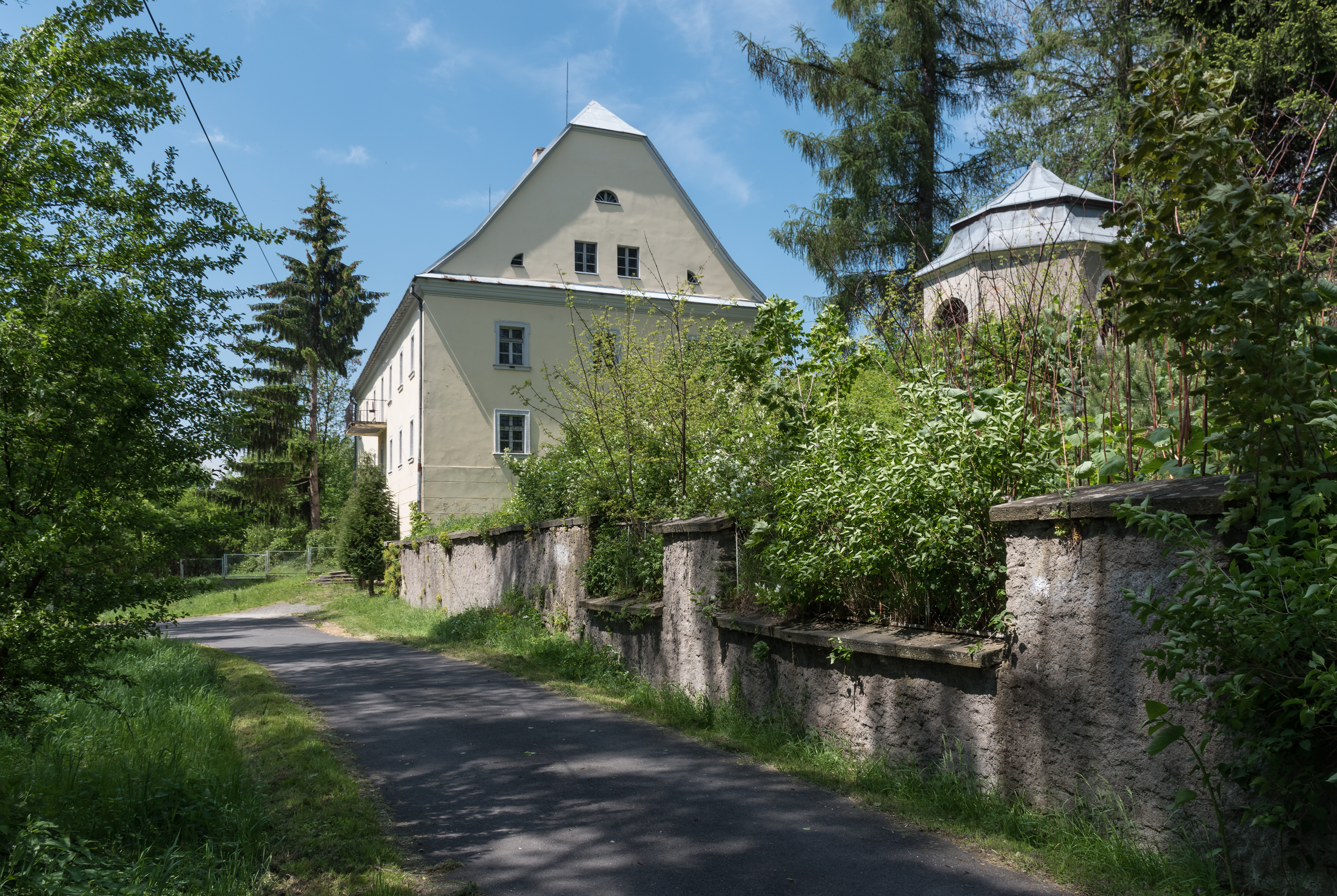 Rectory in Domaszków